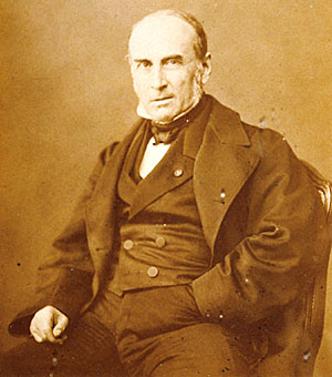 Frederic Le Play